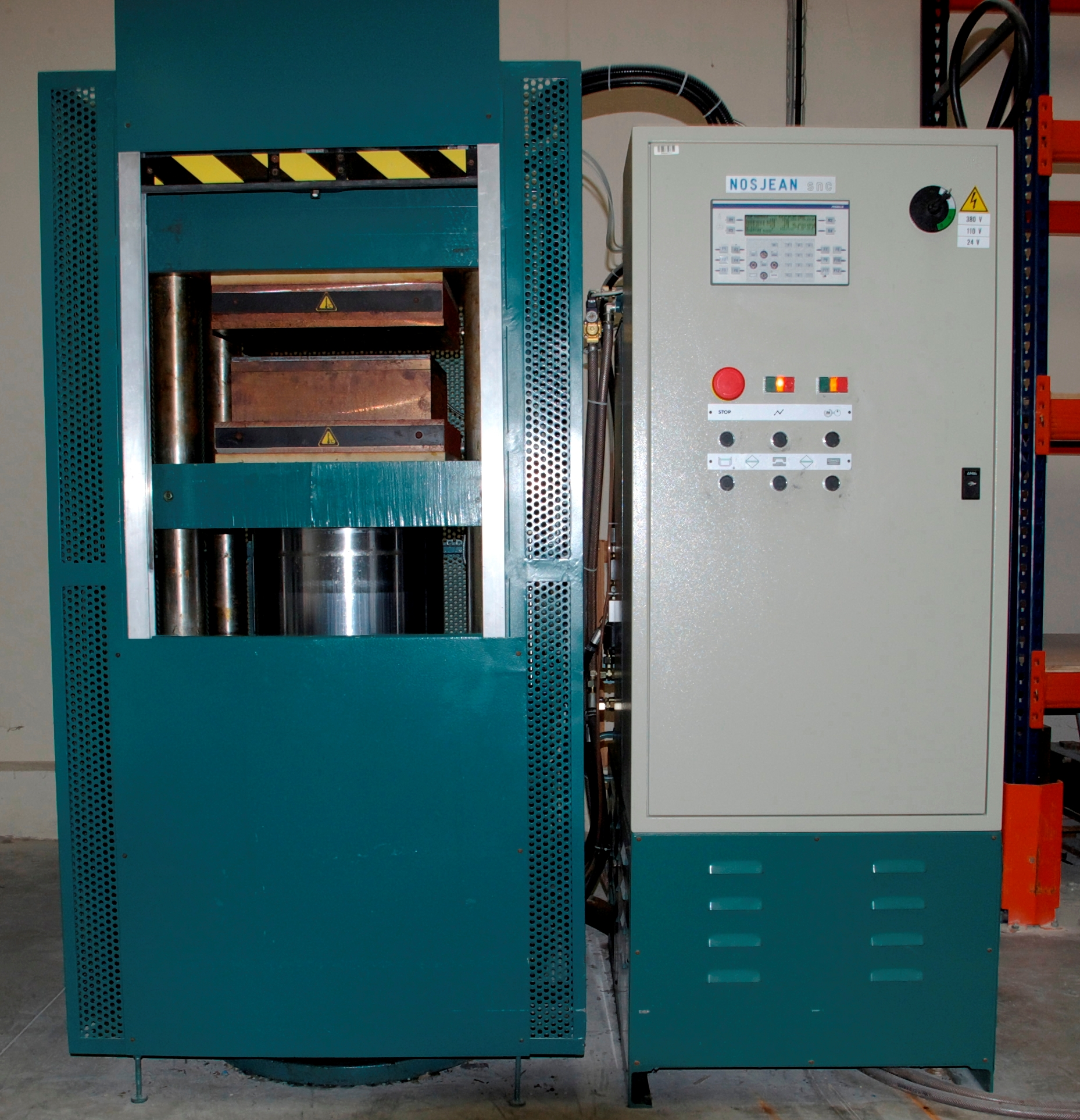 Hydraulic compression press used for moulding thermoplastic materials. Clamping force: 200 t / 160 bar pressure. Hydraulic system: 200 L tank; engine 9 kW. 2 heating plates (setpoint: 180 °C). Weight: 2.6 t.